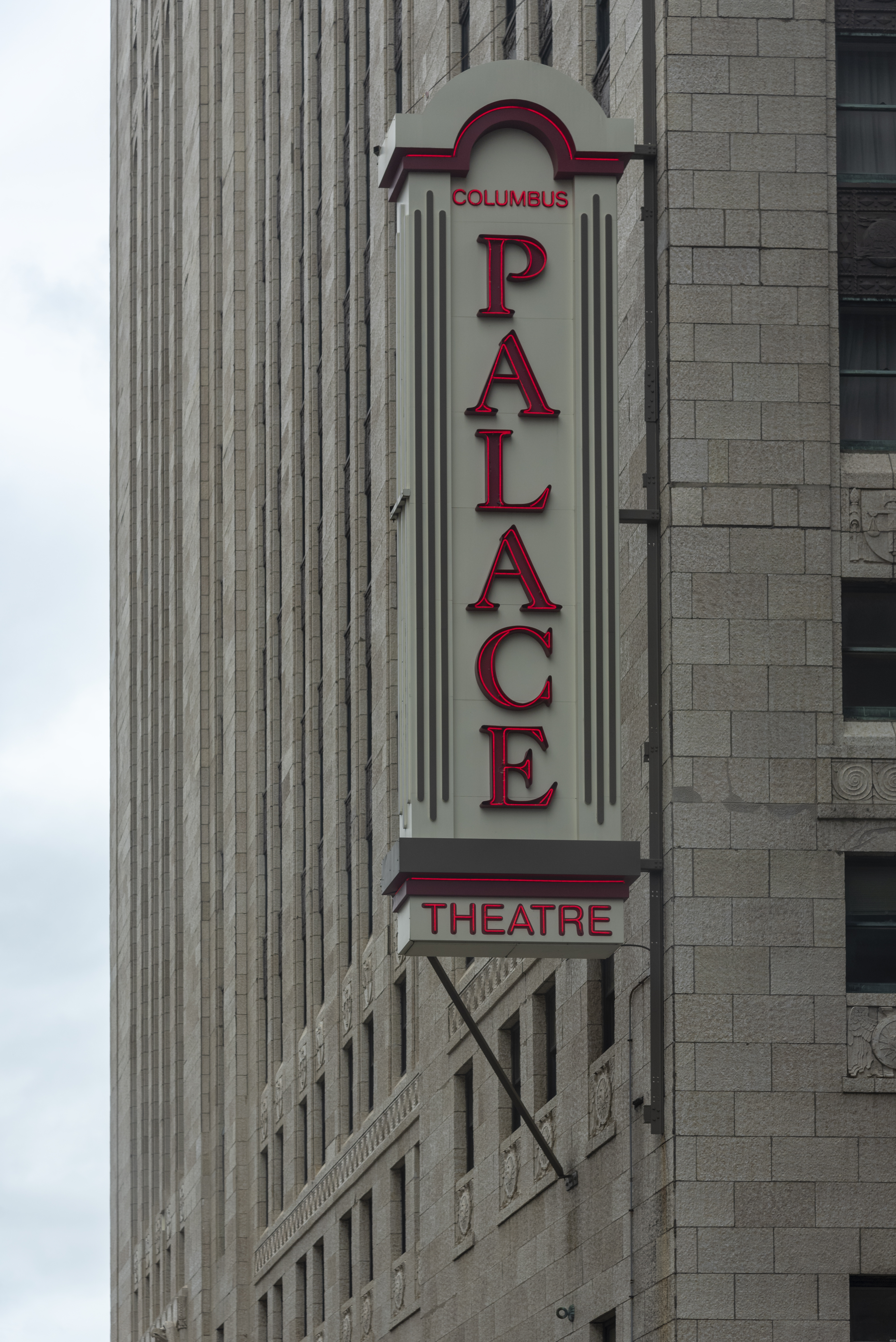 The Palace Theatre sign off of U.S. Route 40.